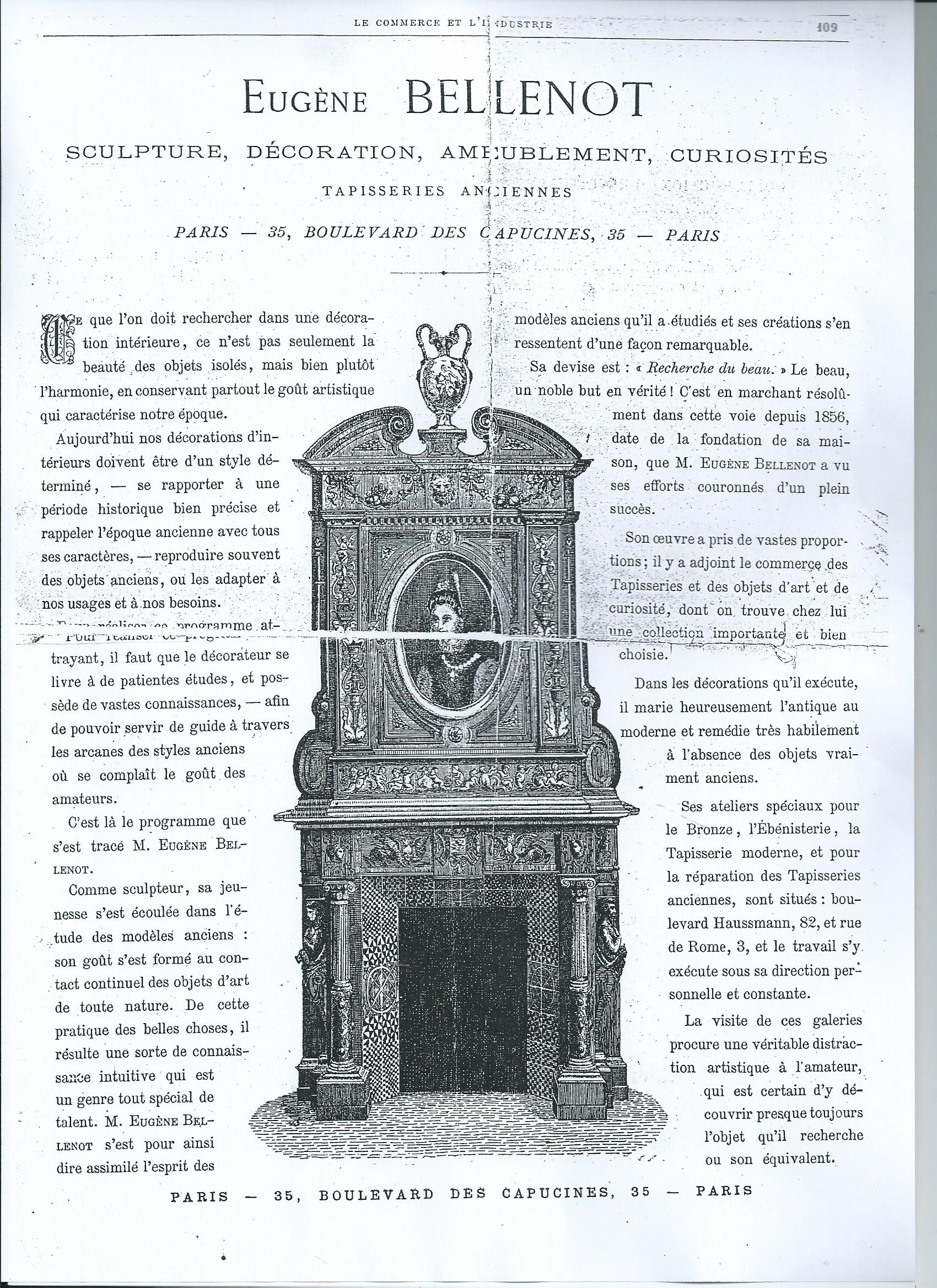 Directory of Trade and Industry (19th century), Paris, Eugène Bellenot 35 Boulevard des Capucines.